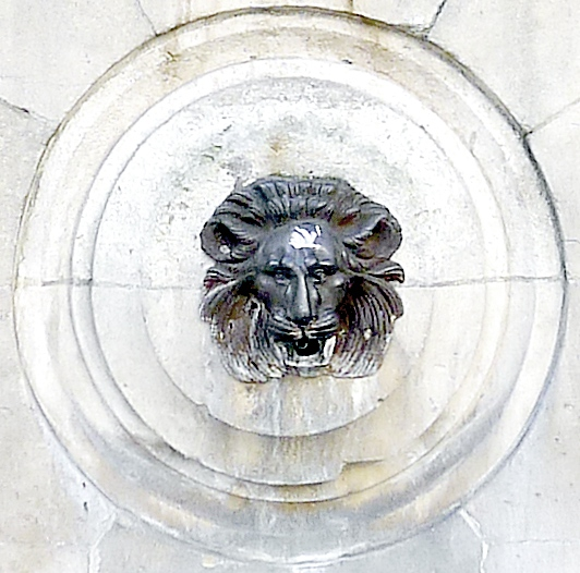 Haudriettes fountain - Paris